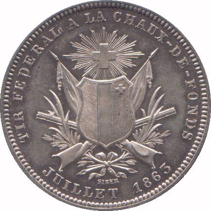 1863 Shooting Thaler Obverse